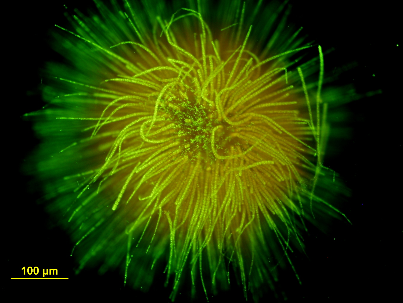 Cyanobacterium Gloeotrichia echinulata stained with Sytox, a green cyanine nucleic acid dye. Radiating filaments and basal heterocysts visible. Specimen from Oregon, USA.